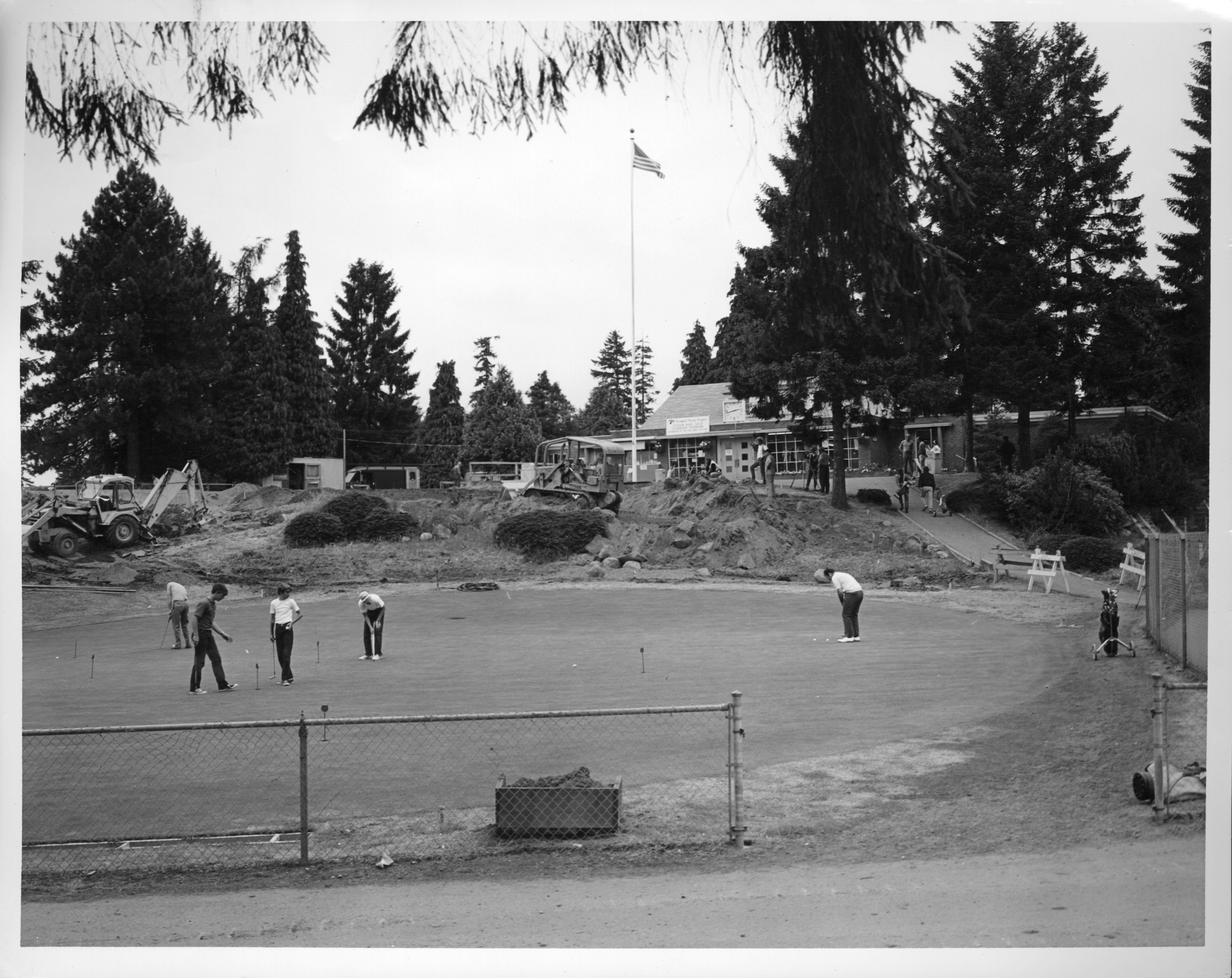 Jackson Park Municipal Golf Course, Seattle, Washington, 1970.